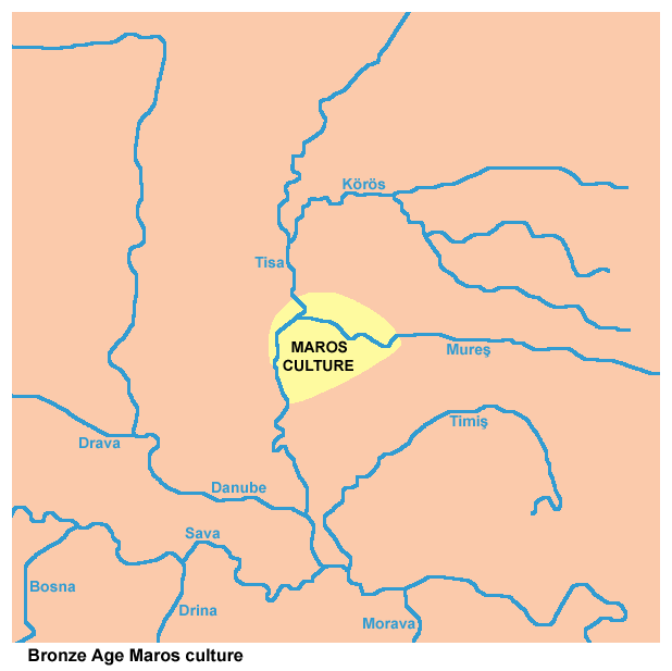 Bronze Age Maros culture (Mokrin culture).